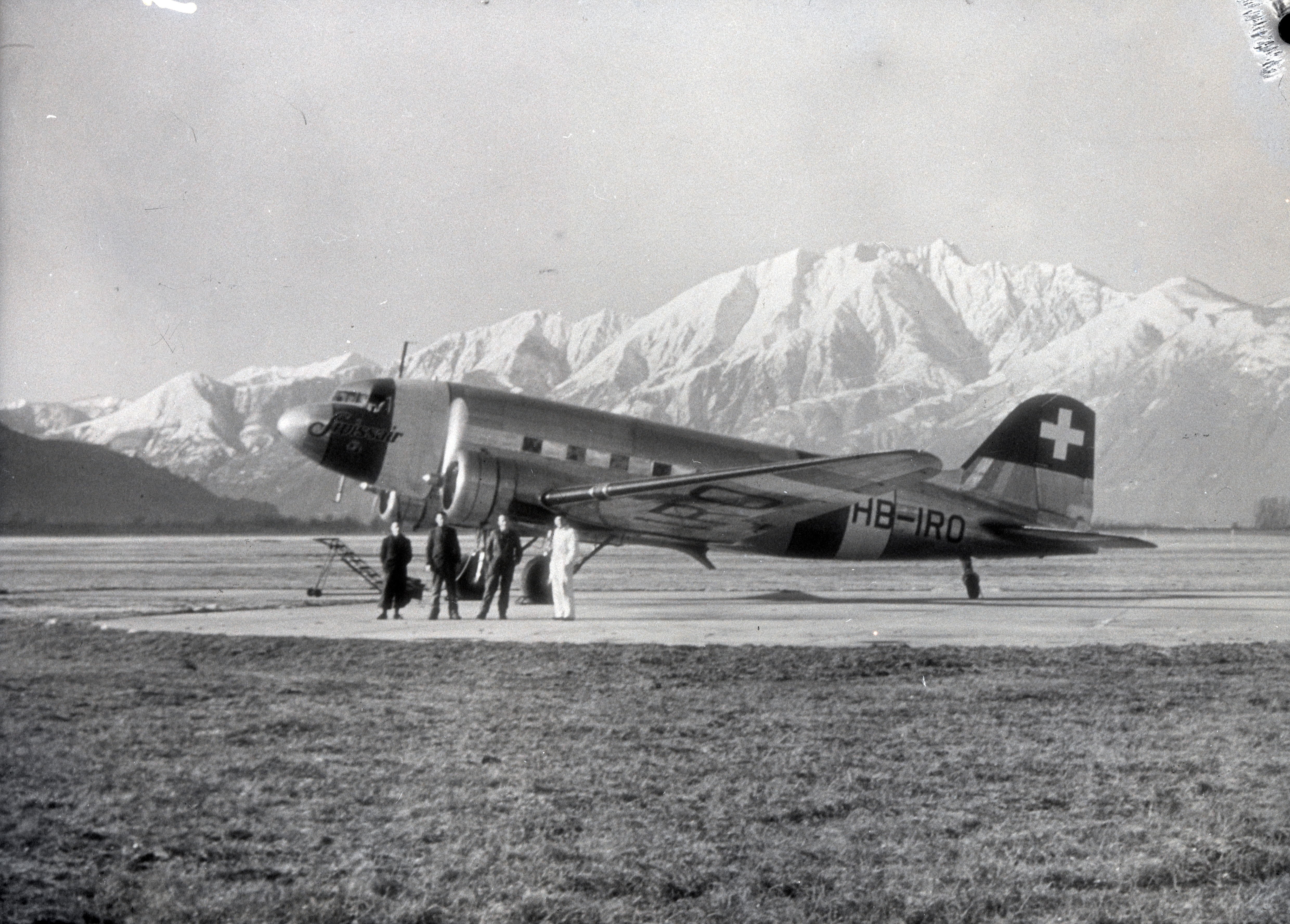 DC-3 HB-IRO of Swissair at Locarno Airport.